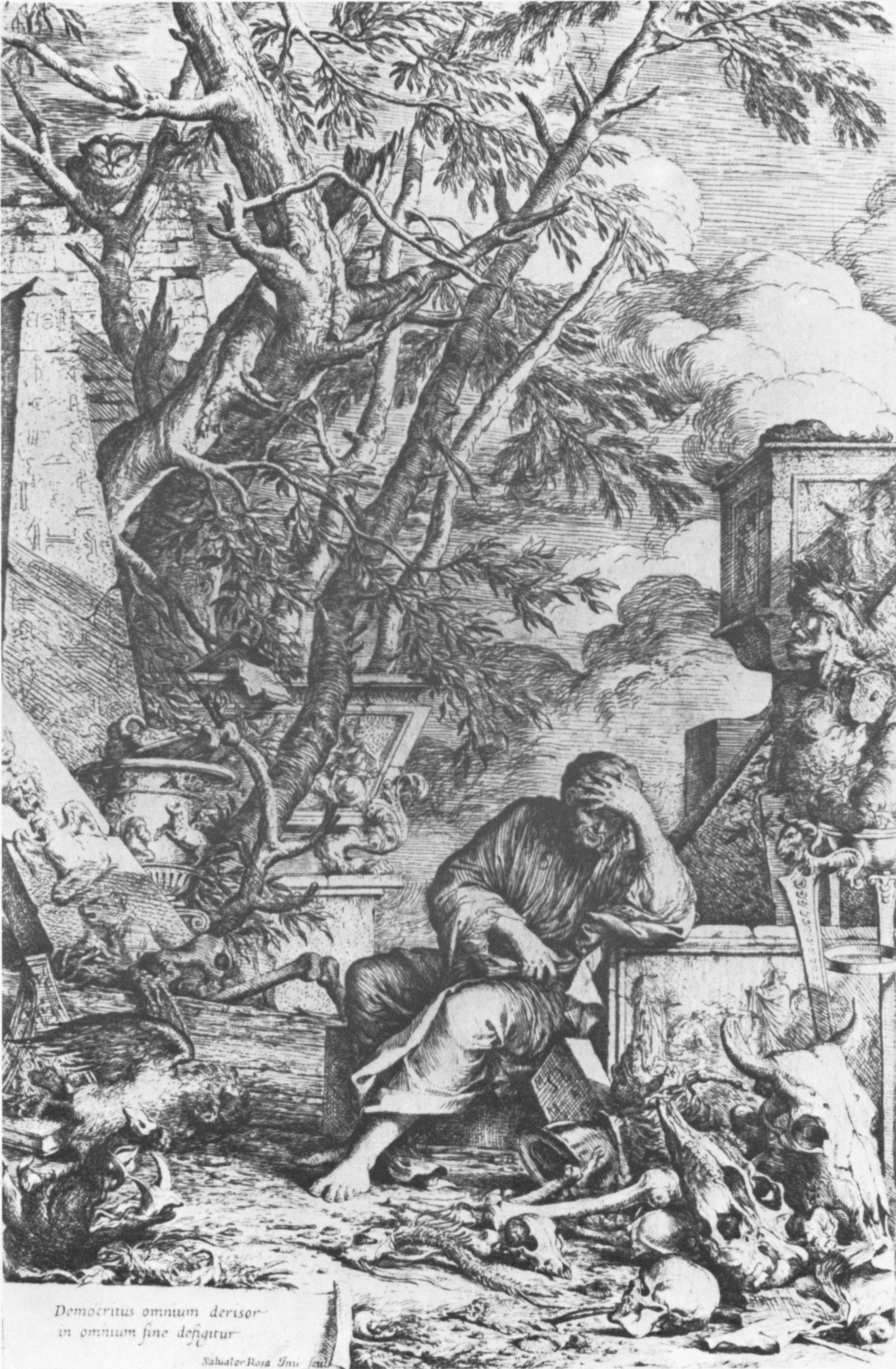 Engrafing by Salvator Rosa showing Democritos in meditation